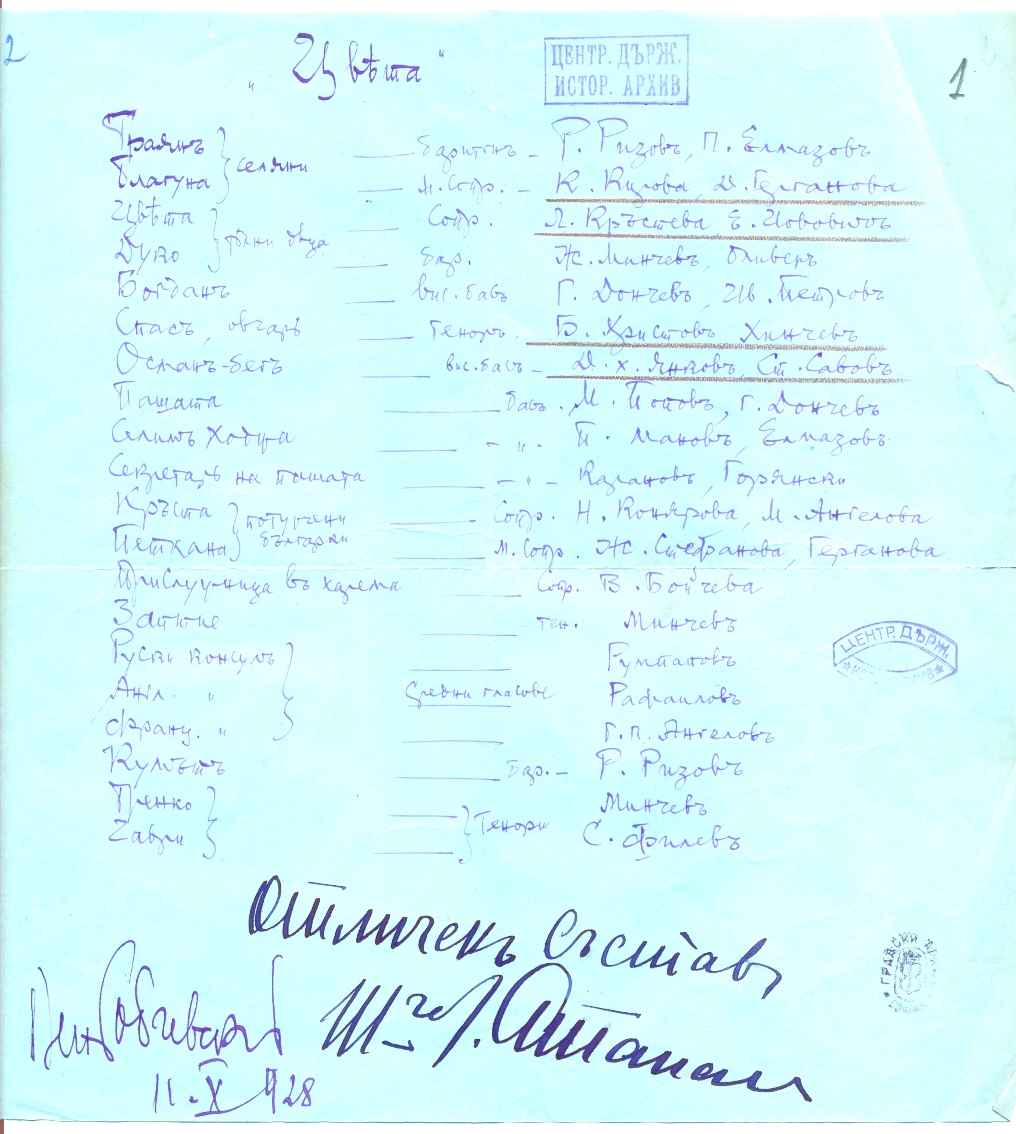 Personages and performers of the opera "Tsveta" with a positive resolution of the cast made by its composer Maestro Georgi Atanasov. Sofia, 11 October 1928. Original manuscript.